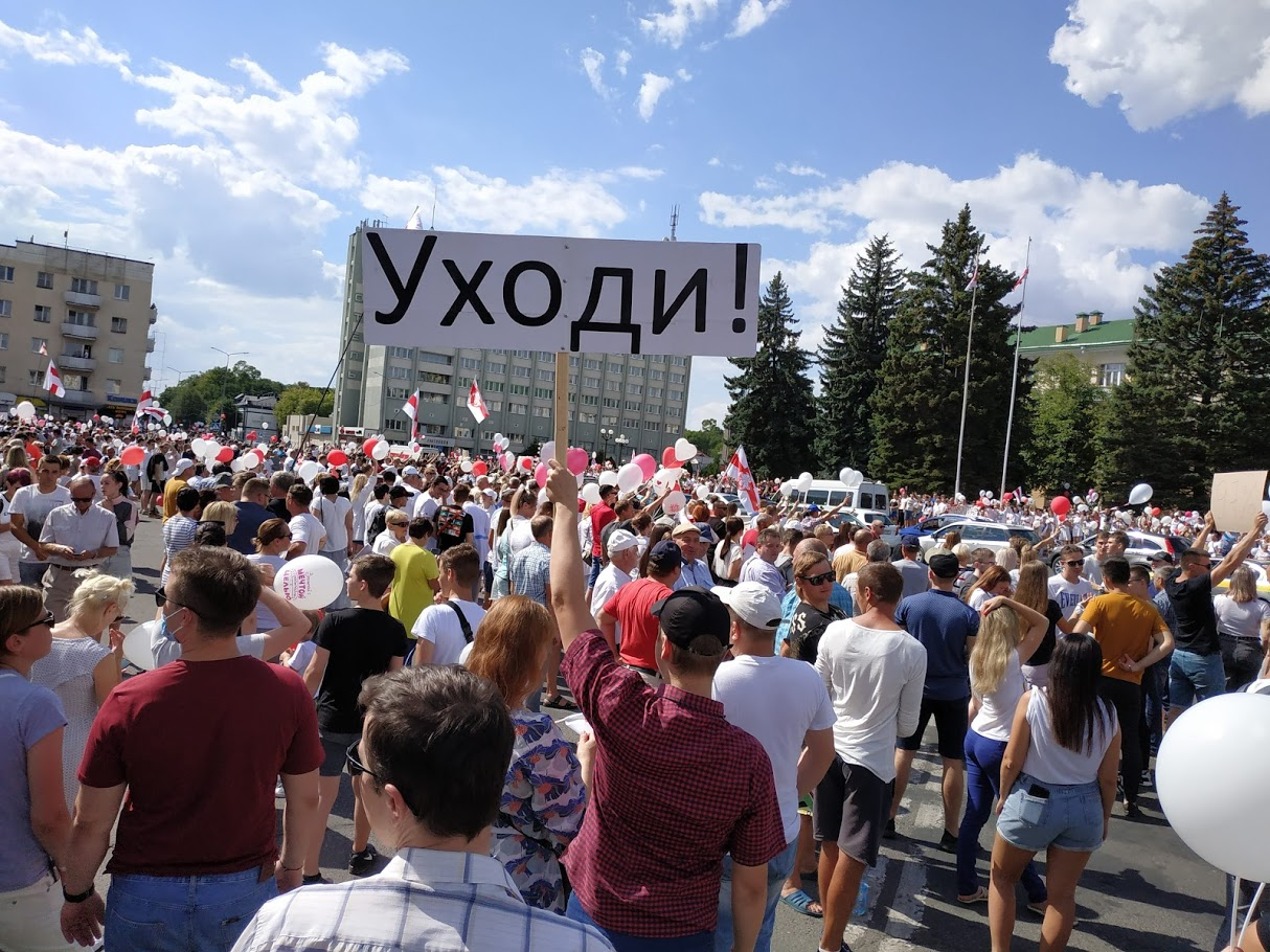 Protest rally against Lukashenko, 16 August. Baranavichy, Belarus